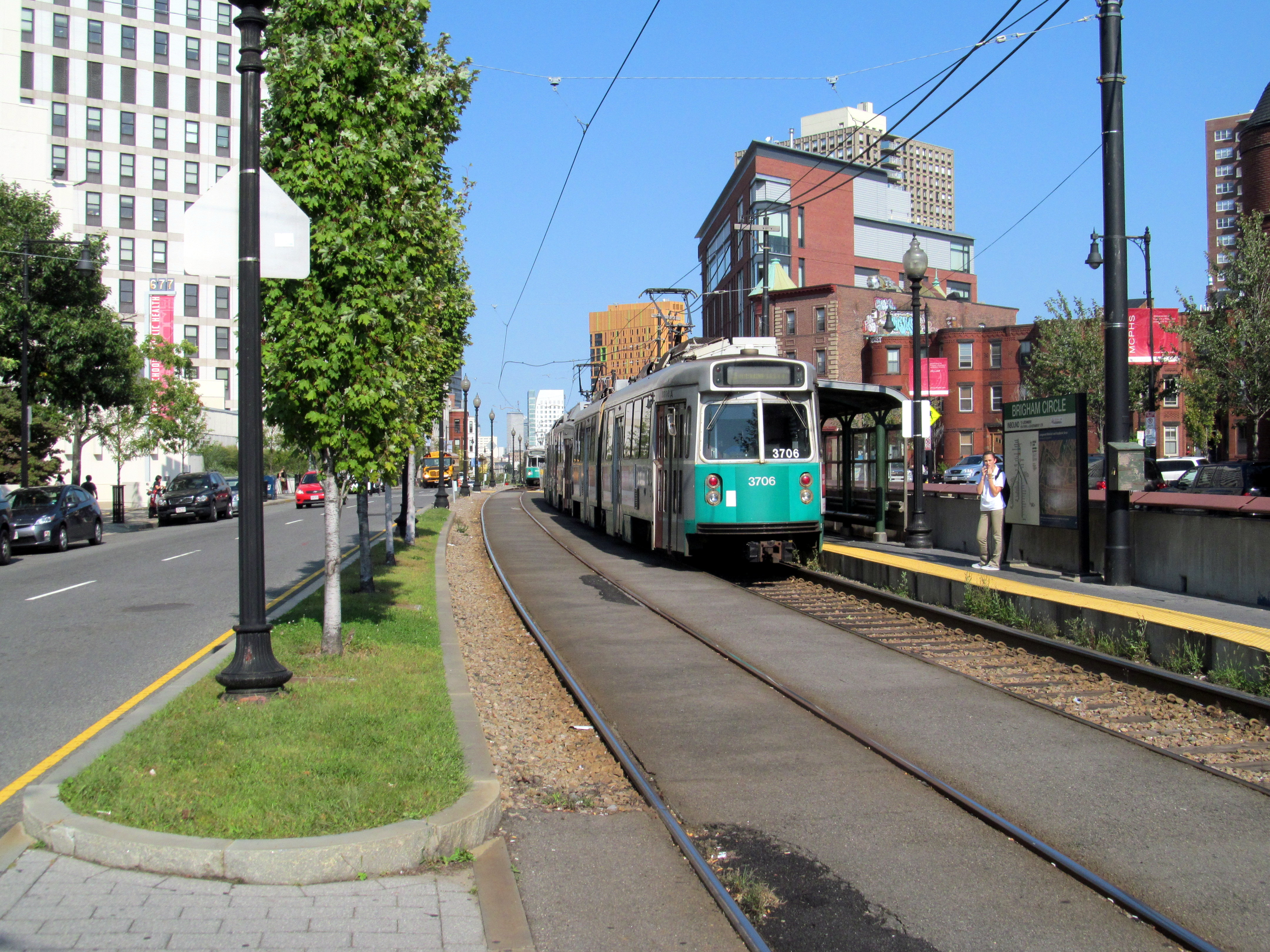 A train at the inbound platform at Brigham Circle station in September 2012